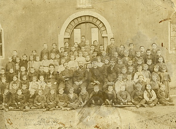 Gorna Dzhumaya Bulgarian School Teachers and Students